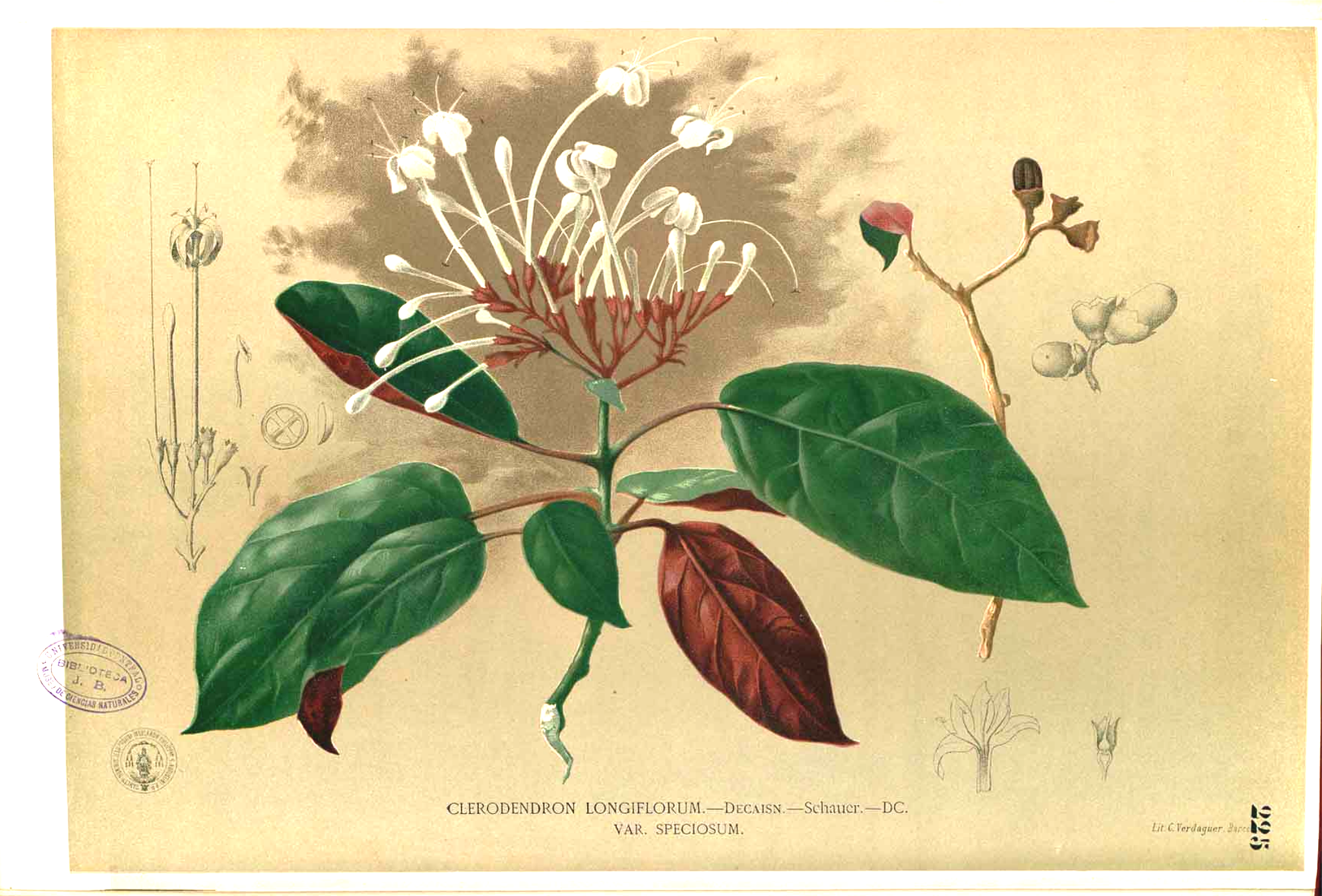 Plate from book Clerodendrum longiflorum